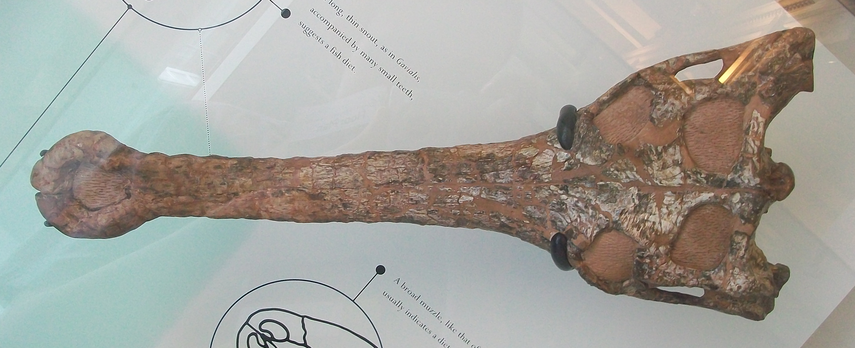 Holotype skull of Gavialis browni MOOK 1932 (AMNH 6279) from the Lower Pliocene of the Himalayan foreland basin (“Siwalik beds”), on display in the American Museum of Natural History.